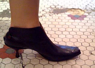 Kitten Heels